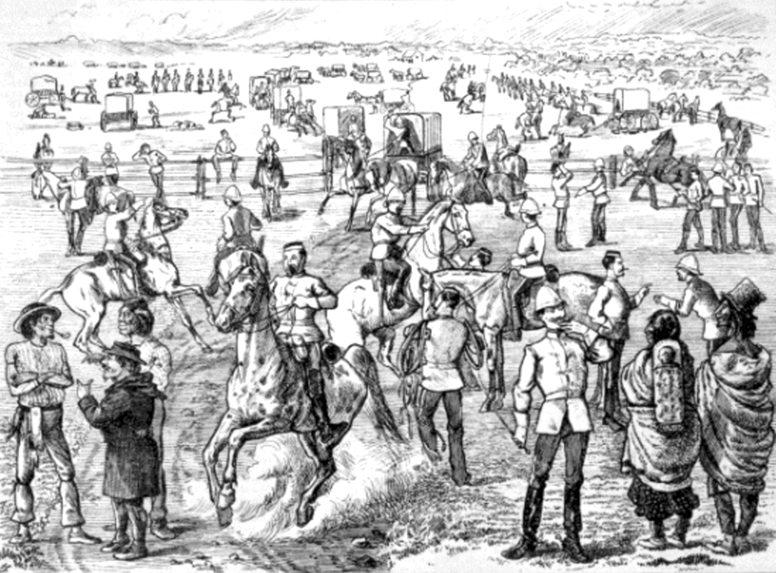 From "Six Months in the Wilds of the North-West", Canadian Illustrated News, Vol. XI, no. 6, No. 6, Page 88. Photo: From Library and Archives Canada ( for confirmation of public domain status)